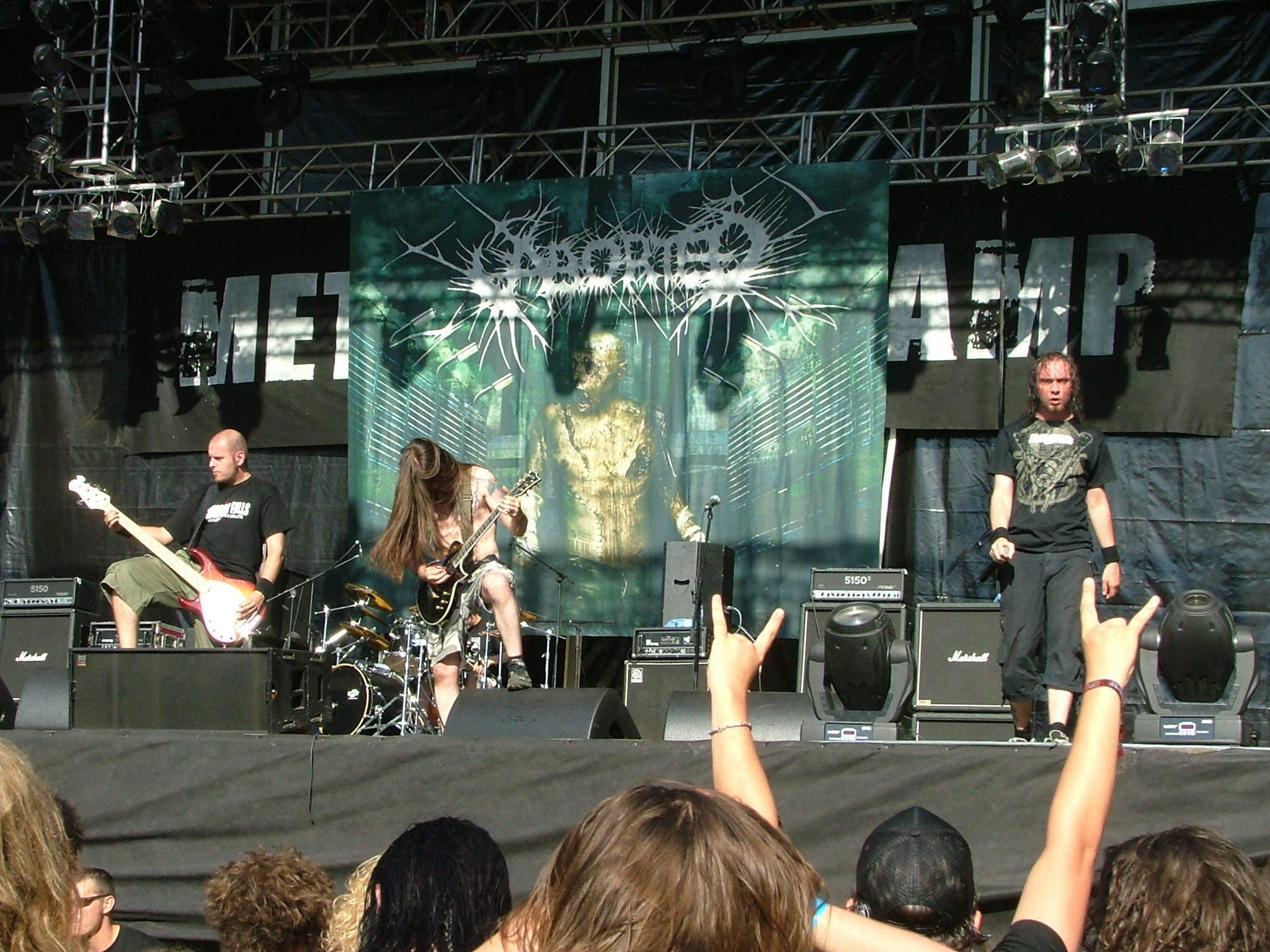 Belgian Death Metal band Aborted at the Metalcamp in Tolmin